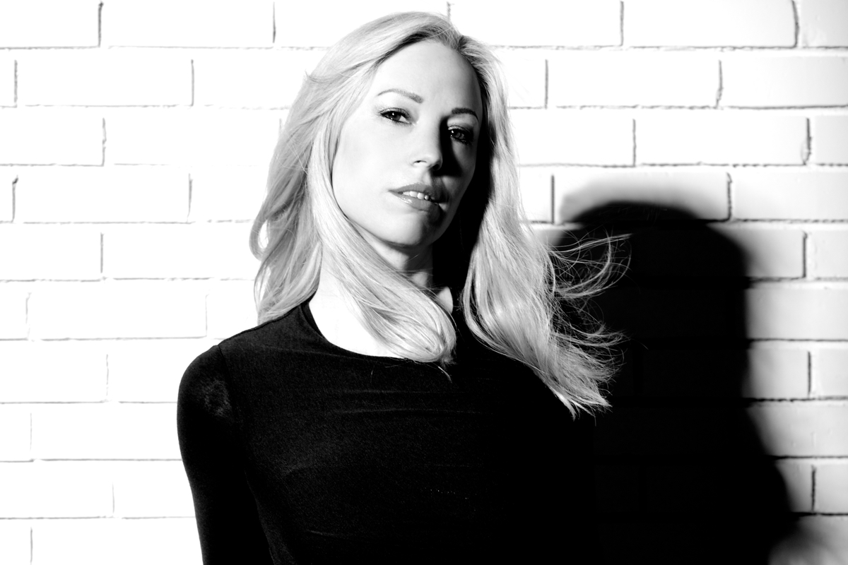 Photo of the musical artist, Katee Page.